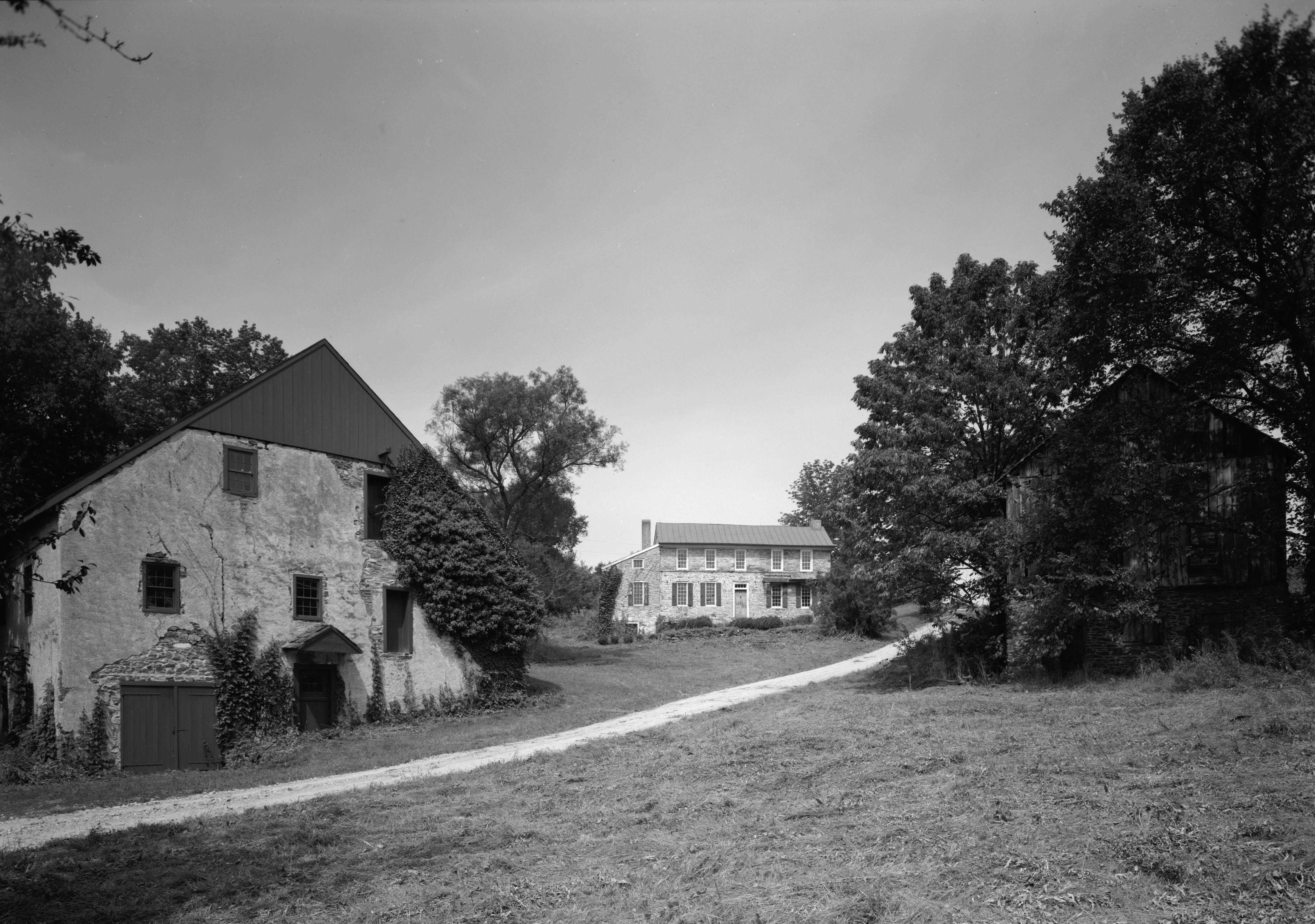 Historic American Buildings Survey, Cervin Robinson, Photographer September, 1958 SOUTH (FRONT) ELEVATION SHOWING MILL TO LEFT AND BARN TO RIGHT. - Mill Tract Farm, Mill Road (Exeter Township), Stonersville, Berks County, PA